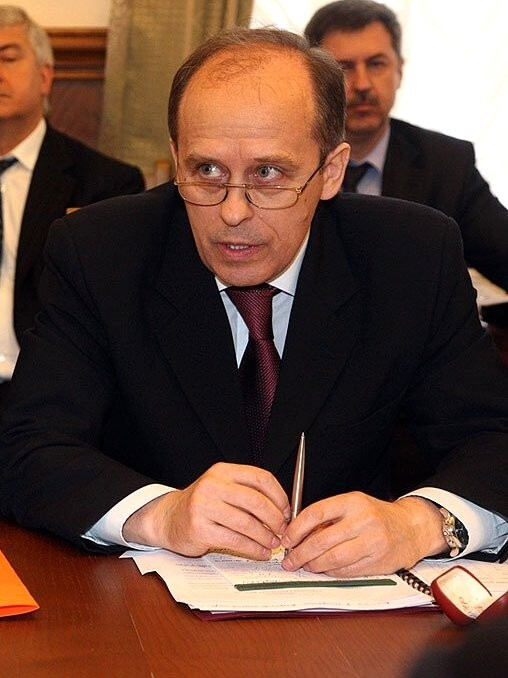 Alexander Bortnikov